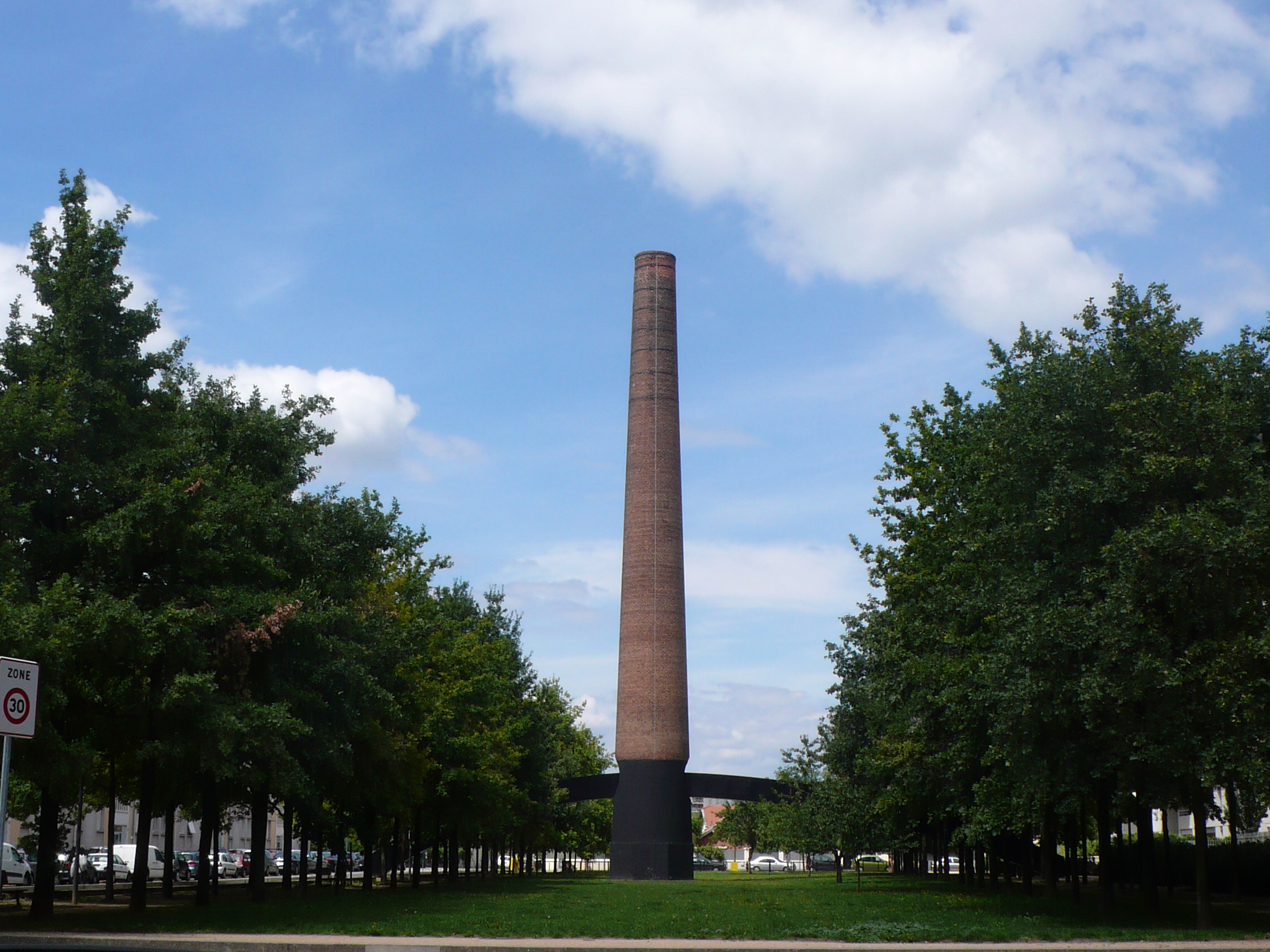 smokestack Felice Varini, Parc du Centre, F-69100 Villeurbanne